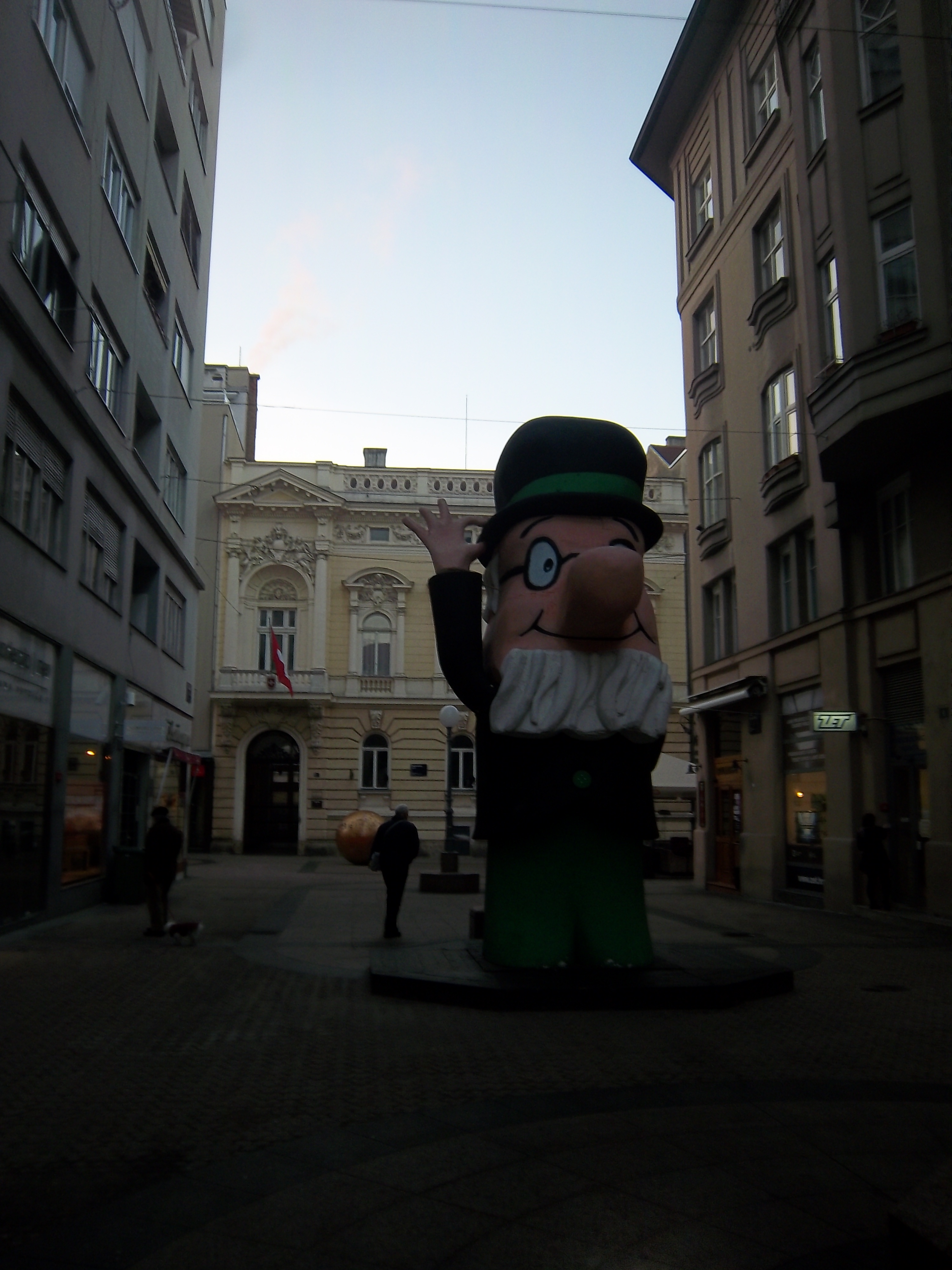 Professor Baltazar at Zagreb